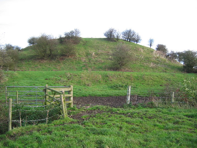 Skipsea Castle, Skipsea Brough, East Riding of Yorkshire, England.This view looking NE from the bottom SW corner of the grid square at TA1614455008. This is a fine example of a Motte and Bailey Castle